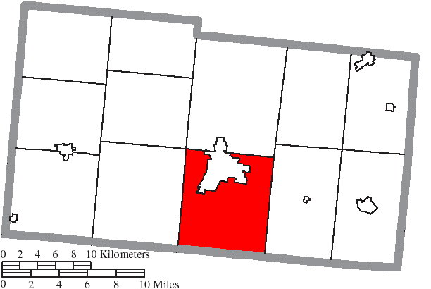 Map of the municipal and township boundaries of Champaign County, Ohio, United States, as of the 2000 census, with the location of Urbana Township highlighted. Township borders are shown only in unincorporated areas in order to differentiate incorporated and unincorporated areas more clearly.